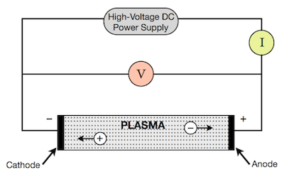 Simple representation of a discharge tube. Direct current (DC) used for simplicity purposes. The potential difference and subsequent electric field causes the free cations (positive) to accelerate toward the cathode (negative electrode) and the anions and electrons (negative) to the anode (positive electrode). Information from: Isaacs, Alan, ed. (2003) A Dictionary of Physics, 4e. Oxford University Press. Idea from: Leal-Quirós, Edbertho (2004) “Plasma Processing of Municipal Solid Waste”. Brazilian Journal of Physics, vol. 34, no. 4B, p.1587